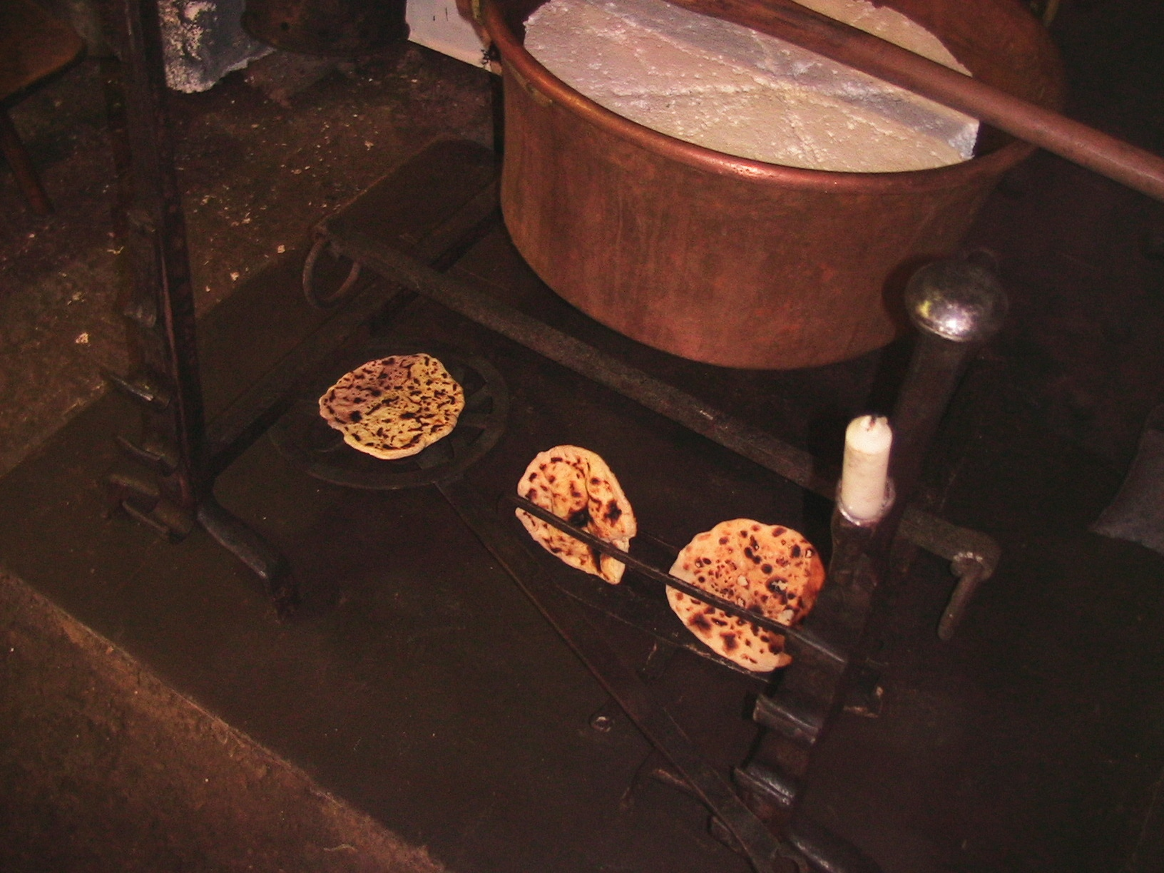 Talo in fireplace (reconstitution for touristical purpose in Montory, France)